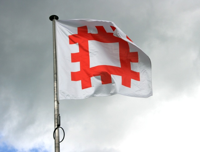 English Heritage flag, Stokesay Castle Flying on the South Tower.